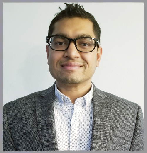 SantoshLamichhaneAuthor